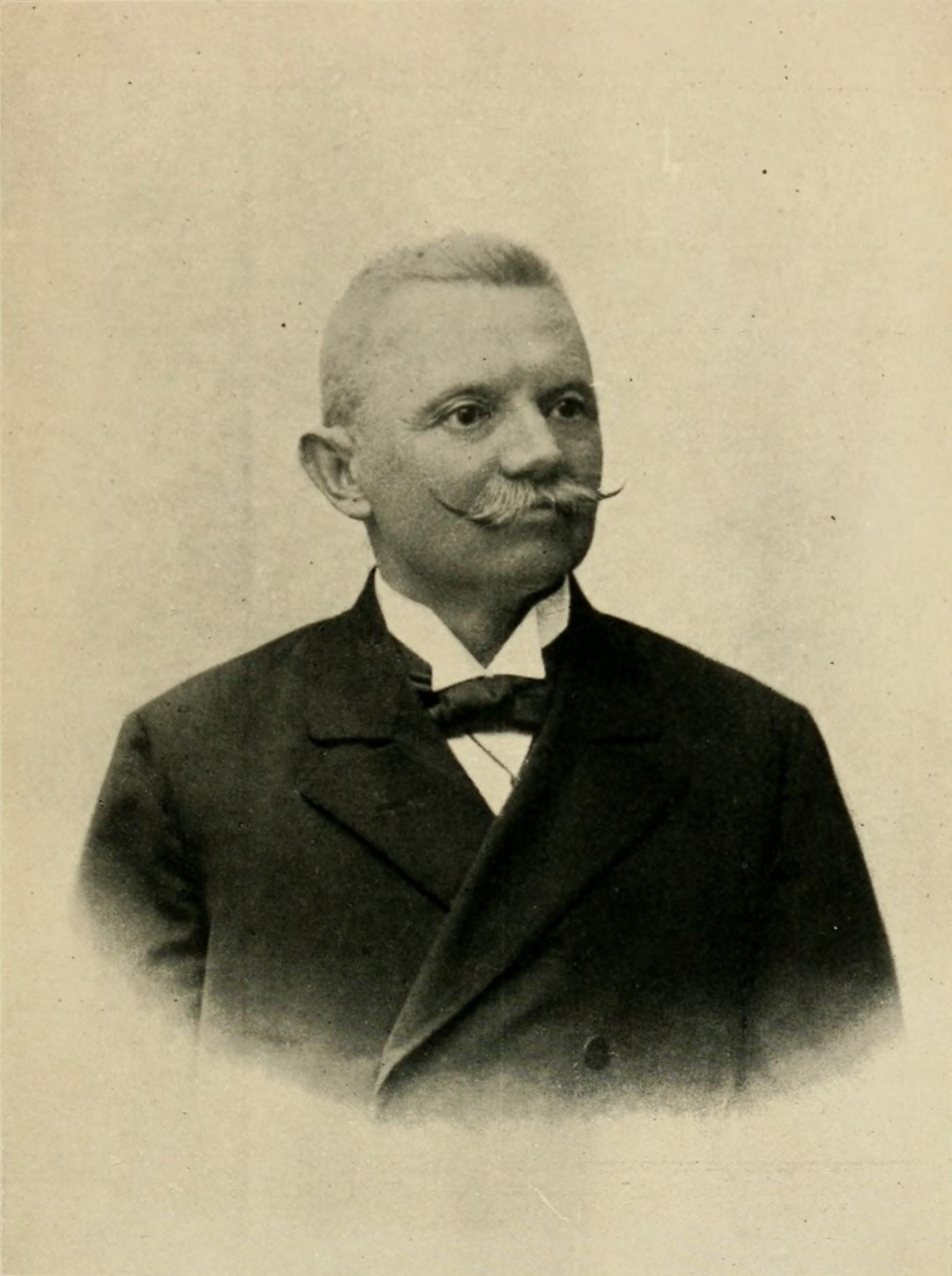 Dr. Lajos SIMONKAI (born Ludwig Philipp SIMKOVICS, 1851-1910), Hungarian botanist